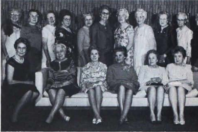 Screenshot-2017-9-9 KKG THE KEY VOL 88 NO 1 SPRING 1971 - THE KEY VOL 88 NO 1 SPRING 1971 pdf